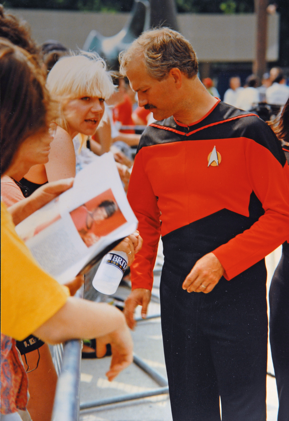 Jack Layton at a star trek convention held at City Hall in Toronto in 1991 (I think). it was a 25th Anniversary party for Star Trek. Jack shmoozing as always.